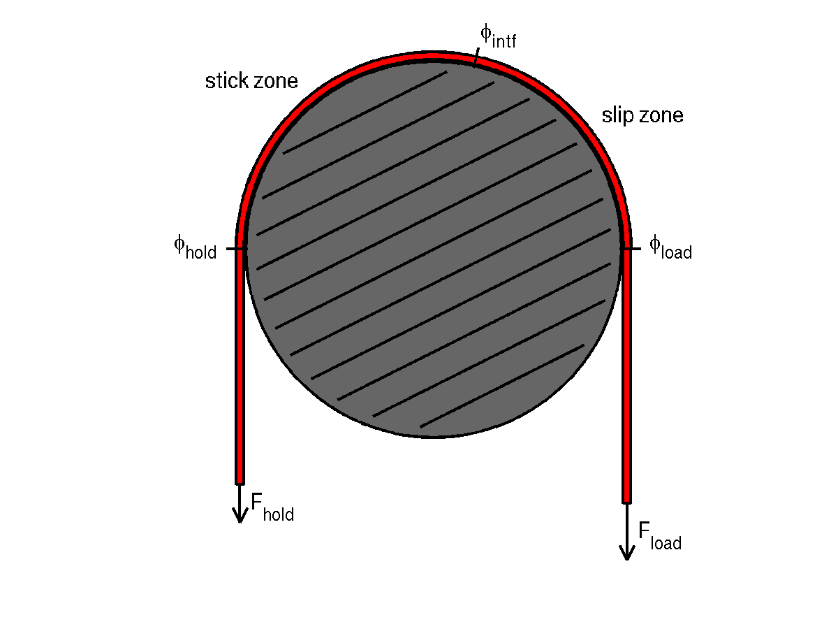 This scheme is used to describe the calculation of the tension distribution in an elastic rope when swung around a bollard and loaded at one side. The contact region is divided into two sections: a stick zone and a slip zone. In the slip zone the rope is elongated with respect to the initial configuration and the rope particles have slid with respect to the bollard surface.